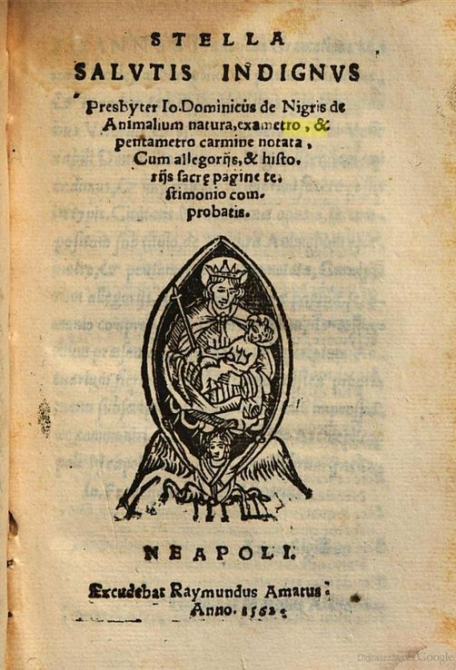 page with title of "Stella salutis" book